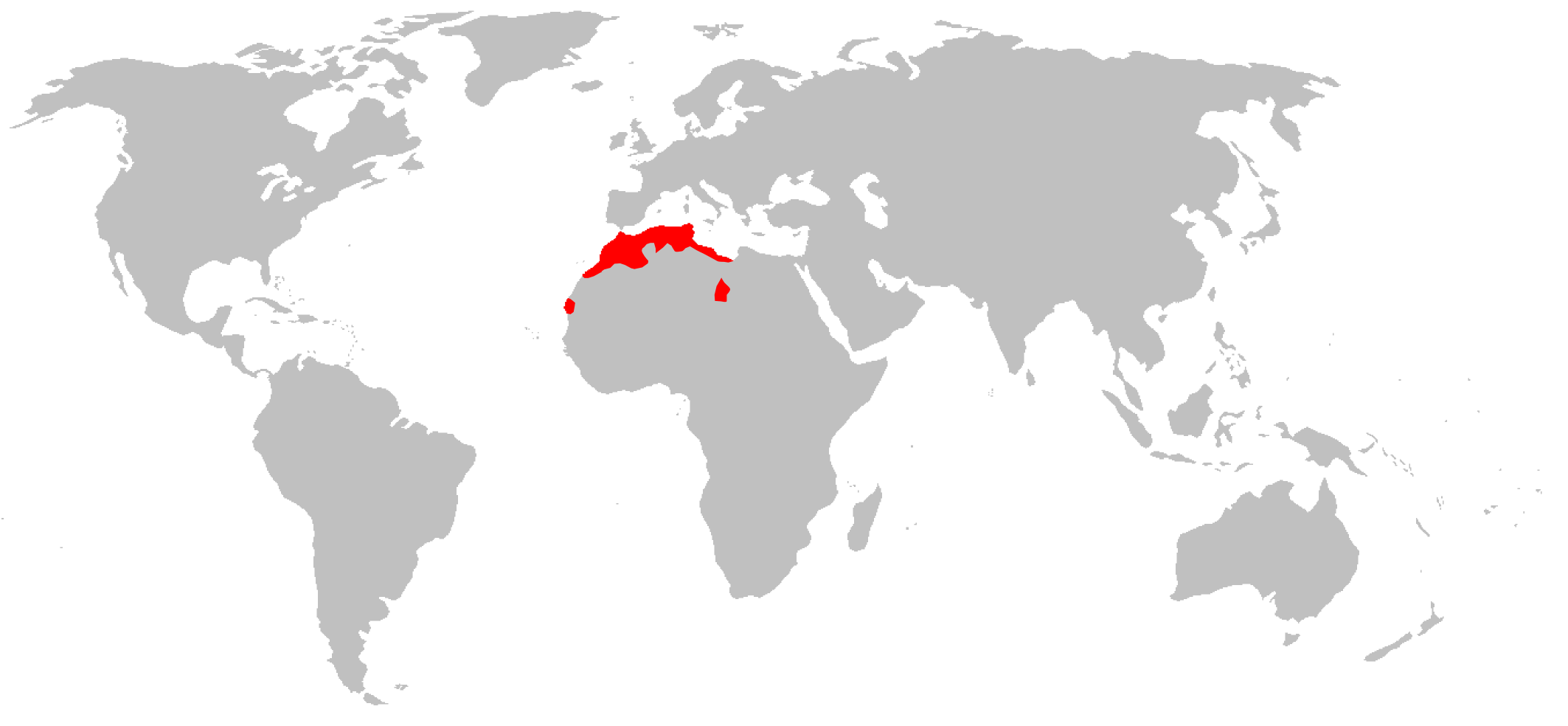 Eliomys munbyanus range map.